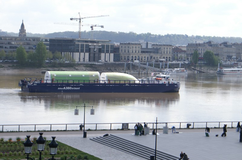 Maritime and river logistics for the Airbus A380